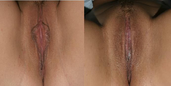 Vaginoplasty